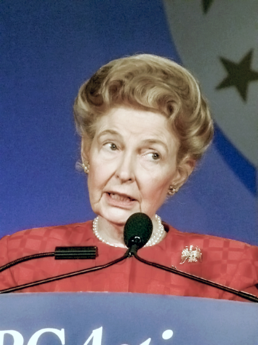 Phyllis Schlafly in 2007 in Washington, DC at the Values Voters conference